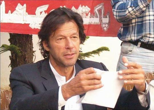 Imran Khan tearing his nomination paper at a press conference in 2007. It has been taken by the Administration of who have allowed to use it.